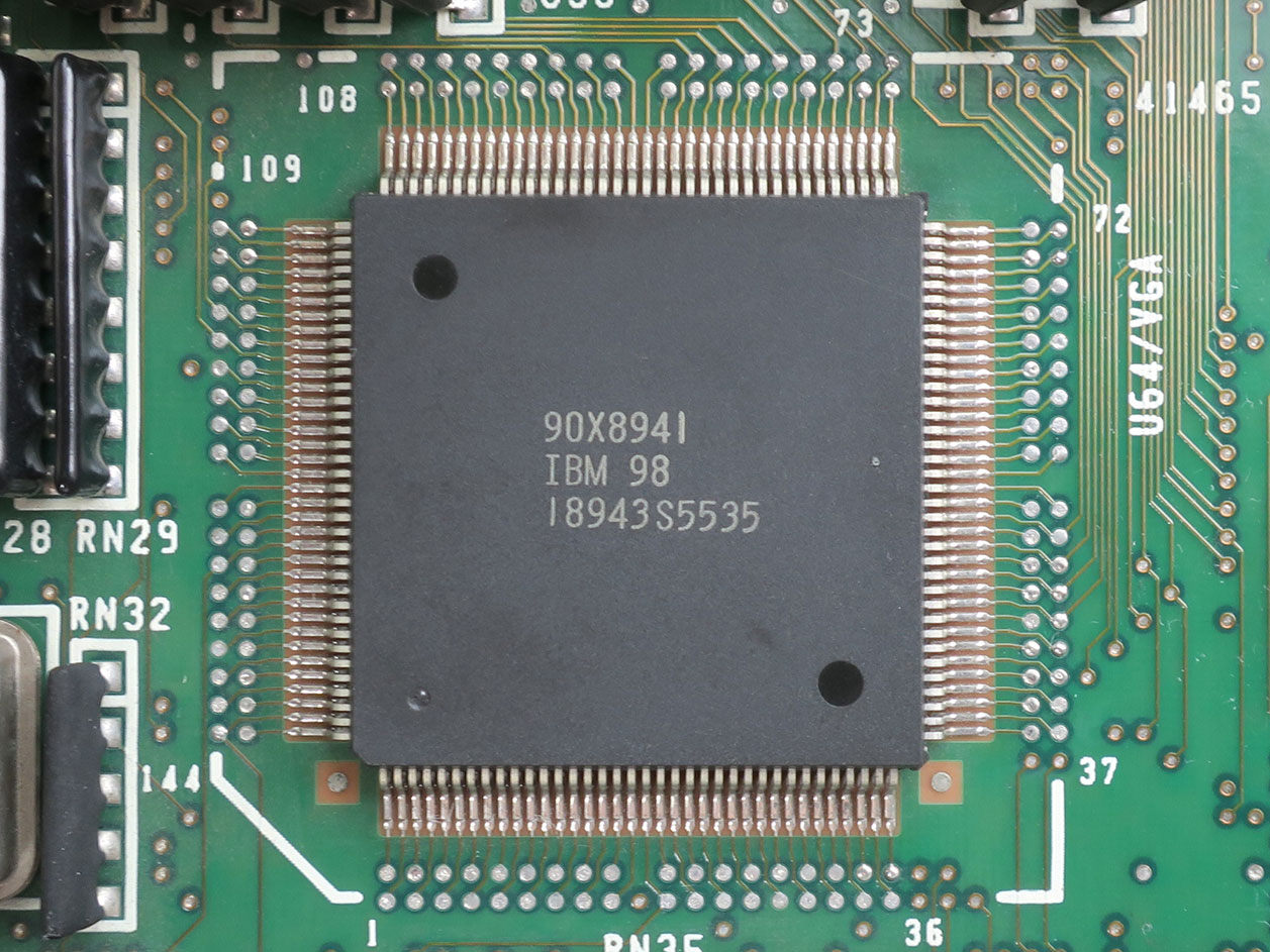 The IBM 90X8941 VGA chip, made in the 43rd week of 1989, on the system board of a Personal System/55